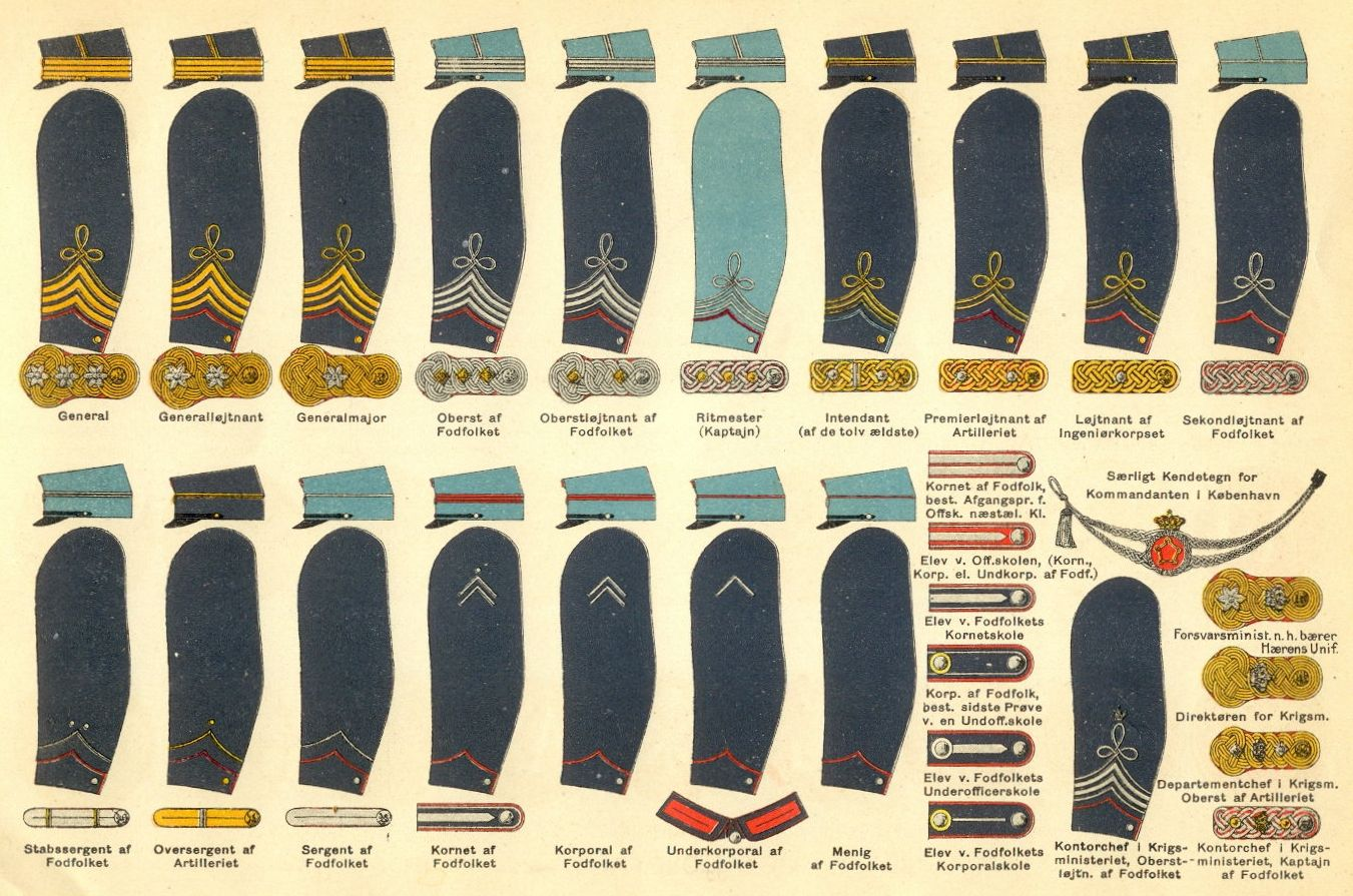 Rank insignia of the Danish Army ~1911